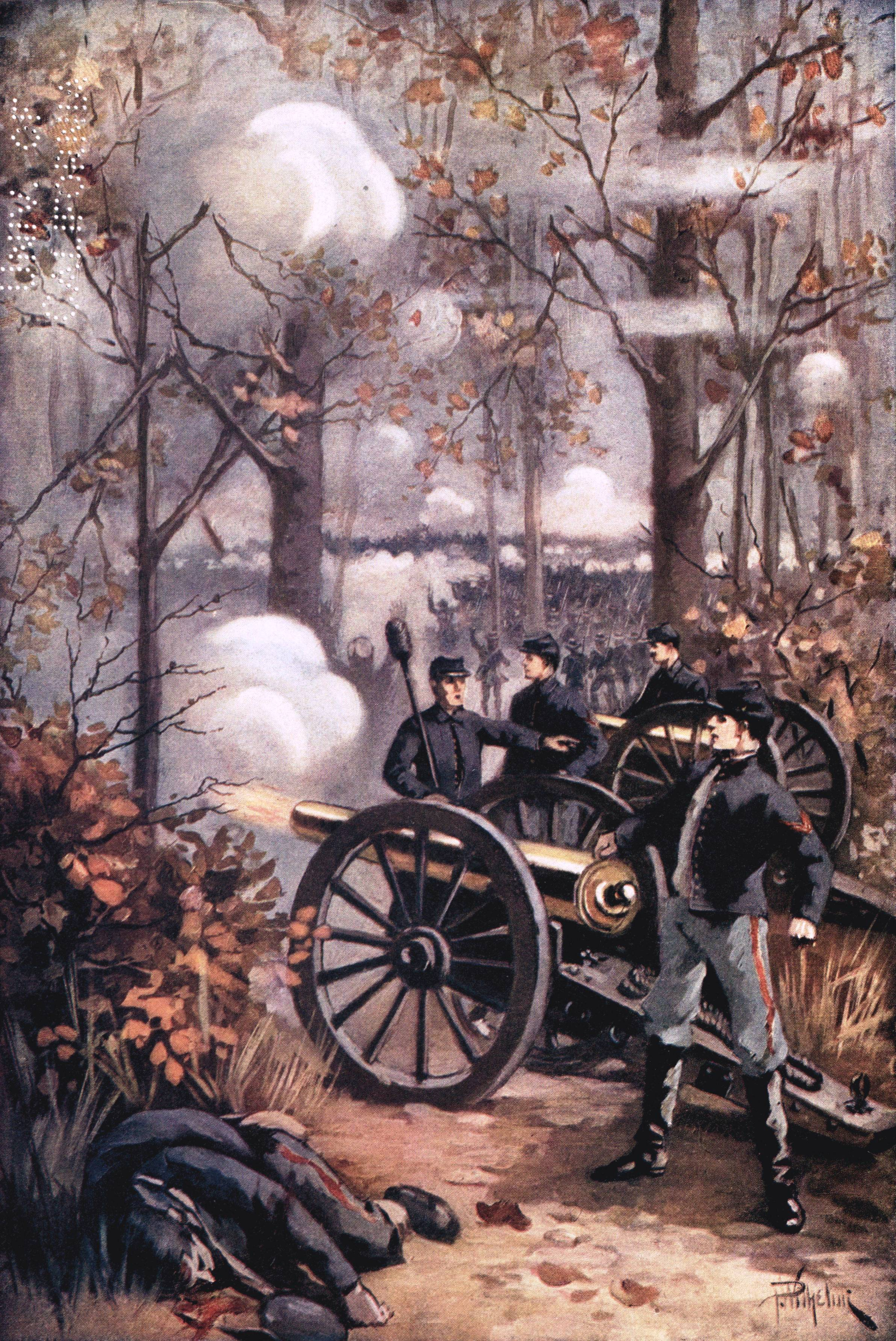 The Battle of Shiloh from Deeds of valor; how America's heroes won the Medal of Honor, published in 1901.